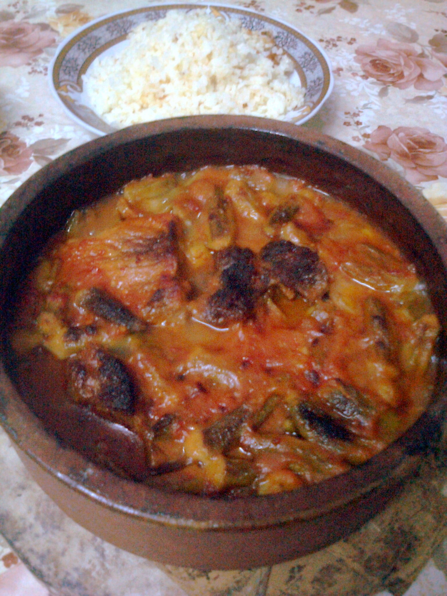 Okra Casserole with meat in the oven This is an image of food from Egypt